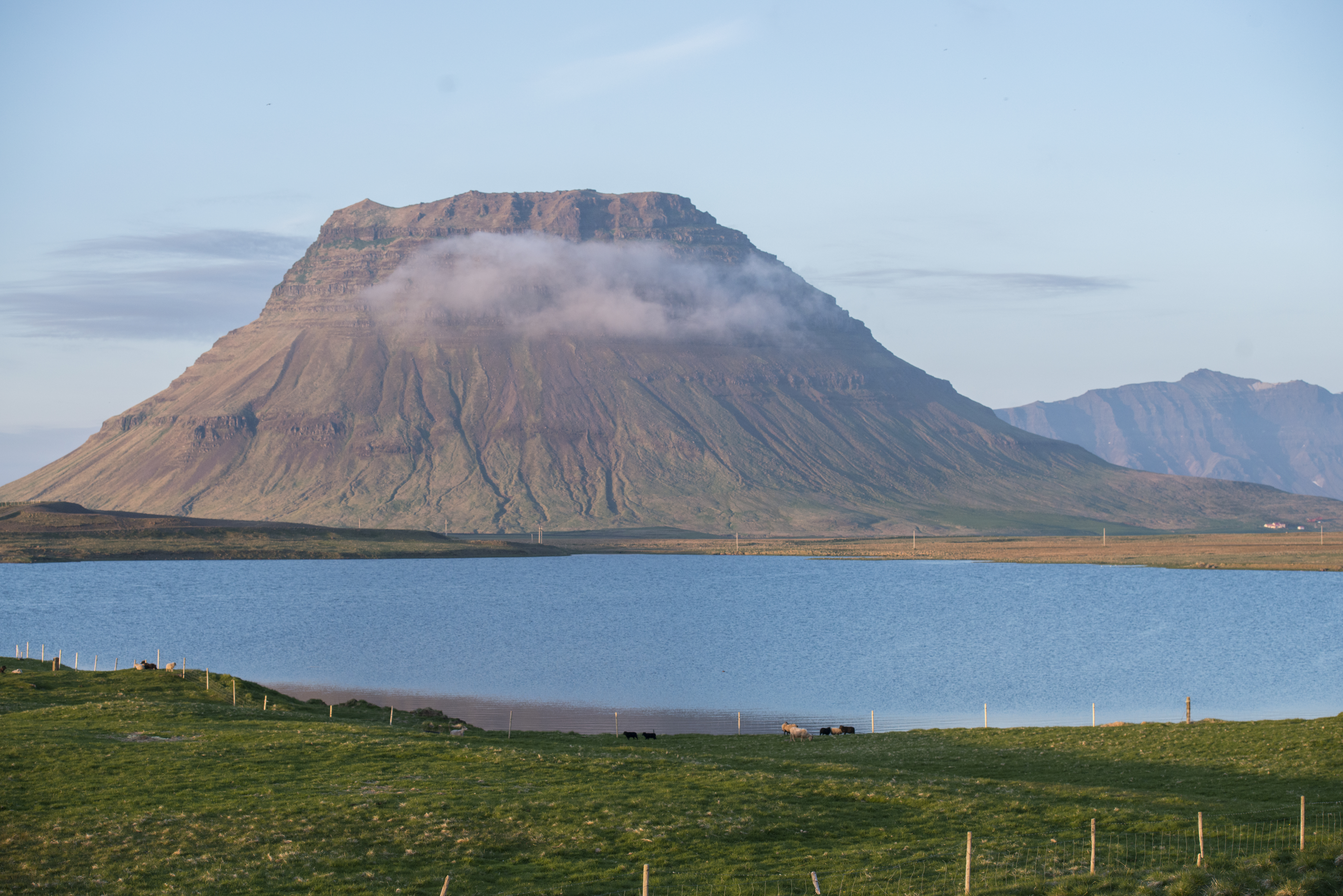 Kirkjufell Mountain in Snaefellsness in Iceland.